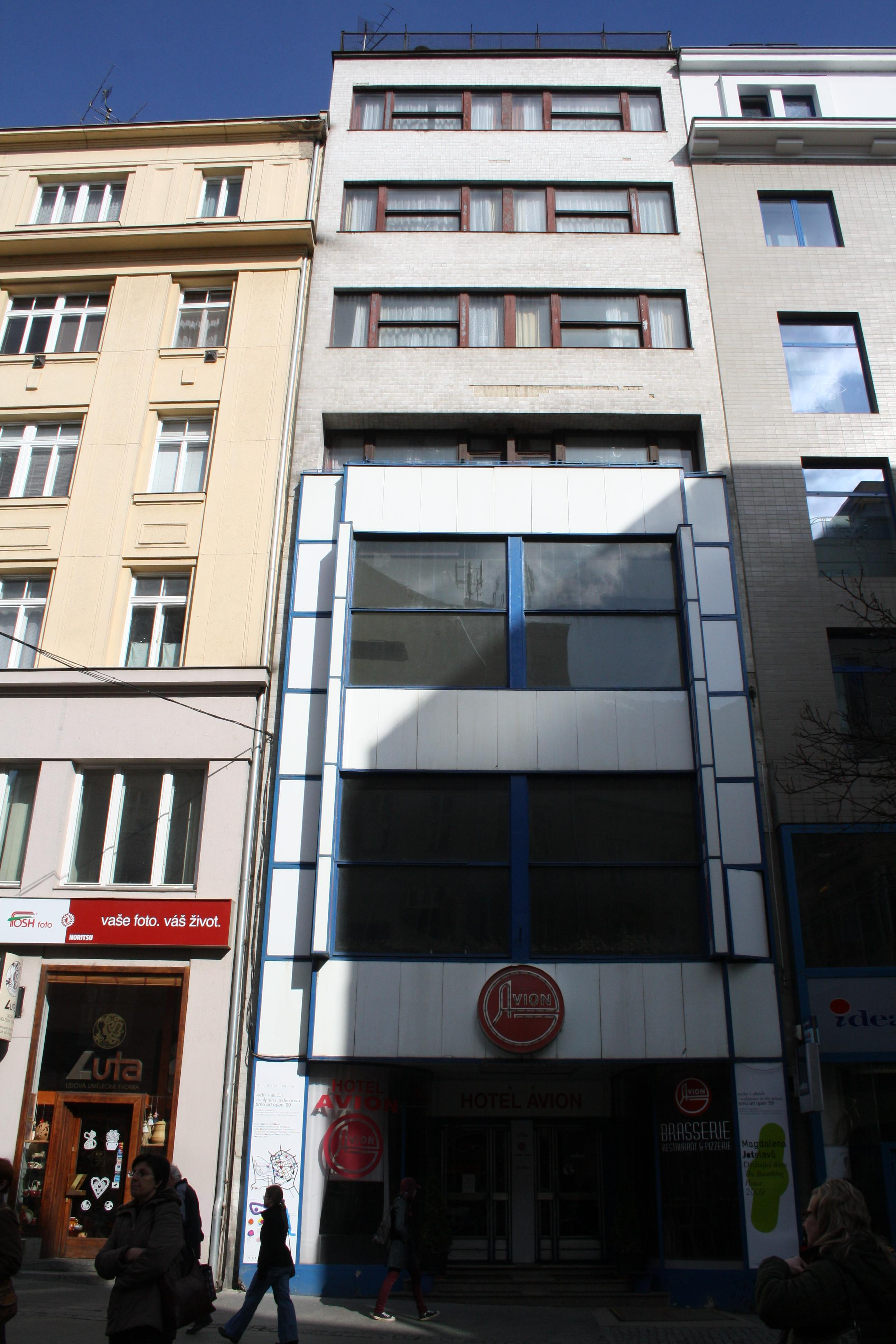 Avion Hotel in Brno-Center.